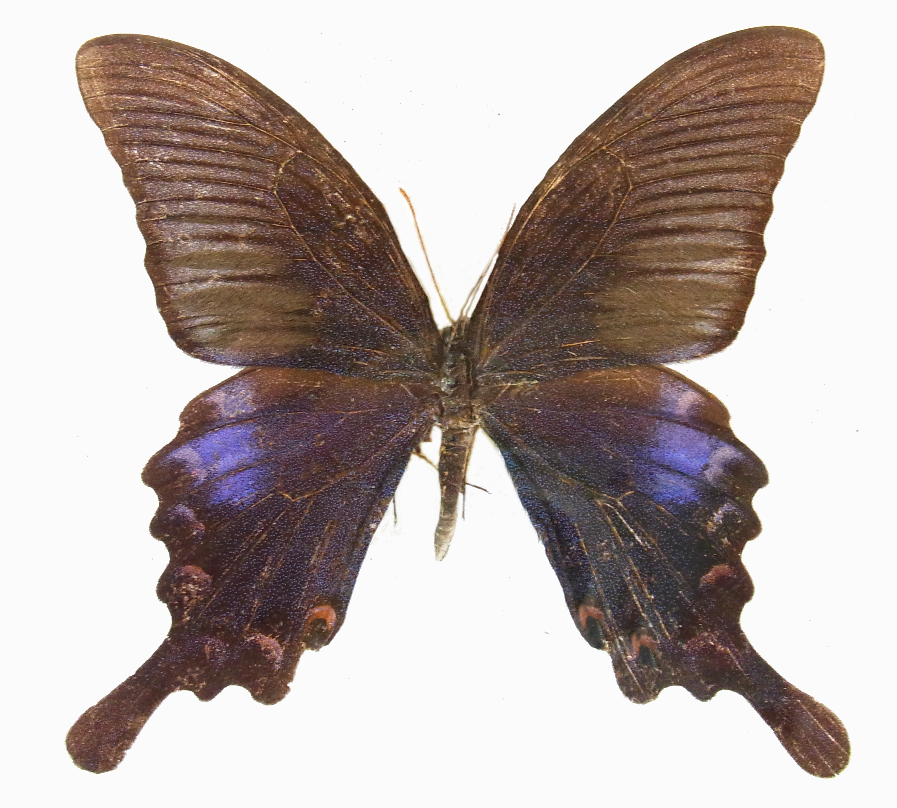 Papilio polyctor from collection